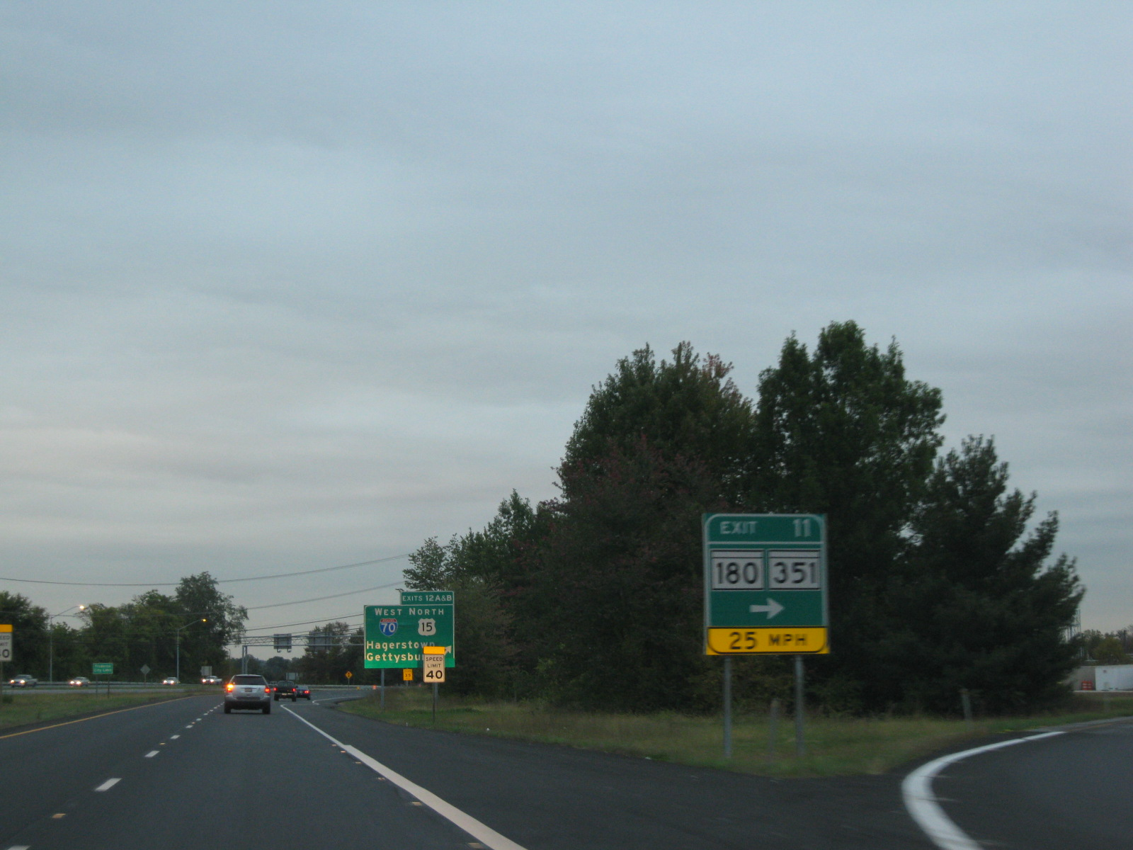 A view approaching the northern terminus of U.S. Route 340 in Frederick, Maryland as viewed from the exit before the end.